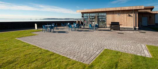 360 Beach and Watersports Centre